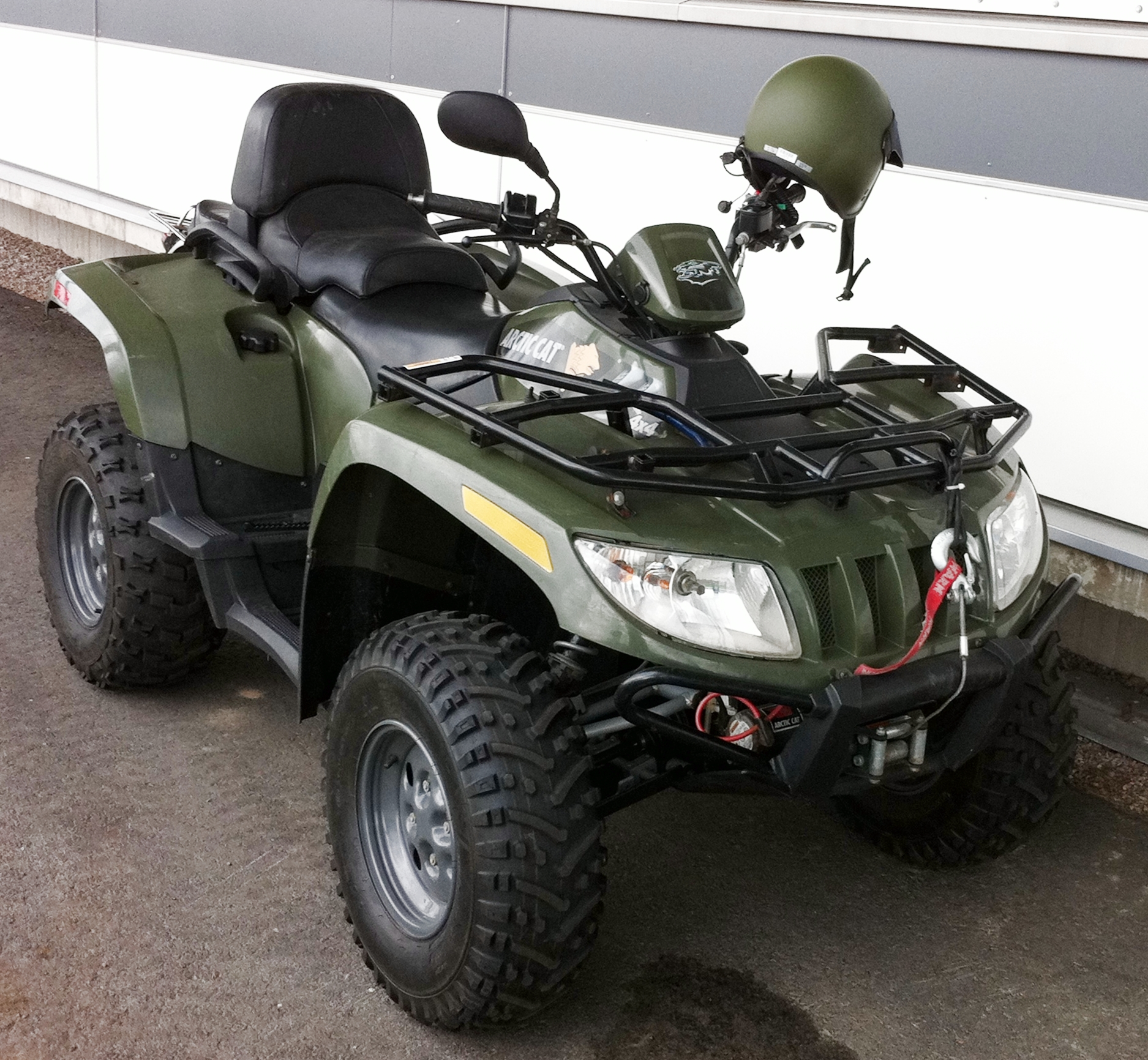 An "Arctic Cat"-ATV, used by the Finnish border guard. The picture was taken at the Finnish-Russian border crossing point (nearby Virolahti, along the federal highway 7/M10, later E 18) - linked location/coordinate incorrect